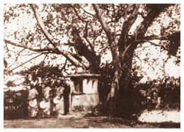 The Kalutara Bodhi in the third decade of the 20th Century.